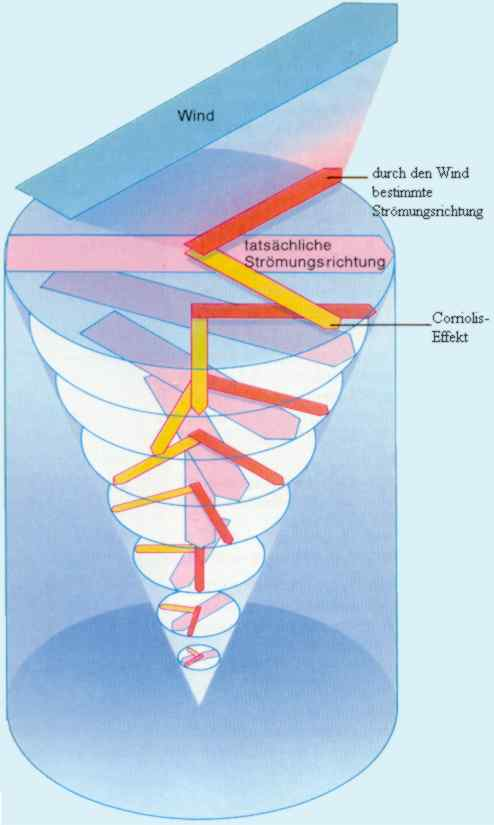 ocean currents changing directions at an angle to the surface winds because of coriolis effect, see Ekman spiral